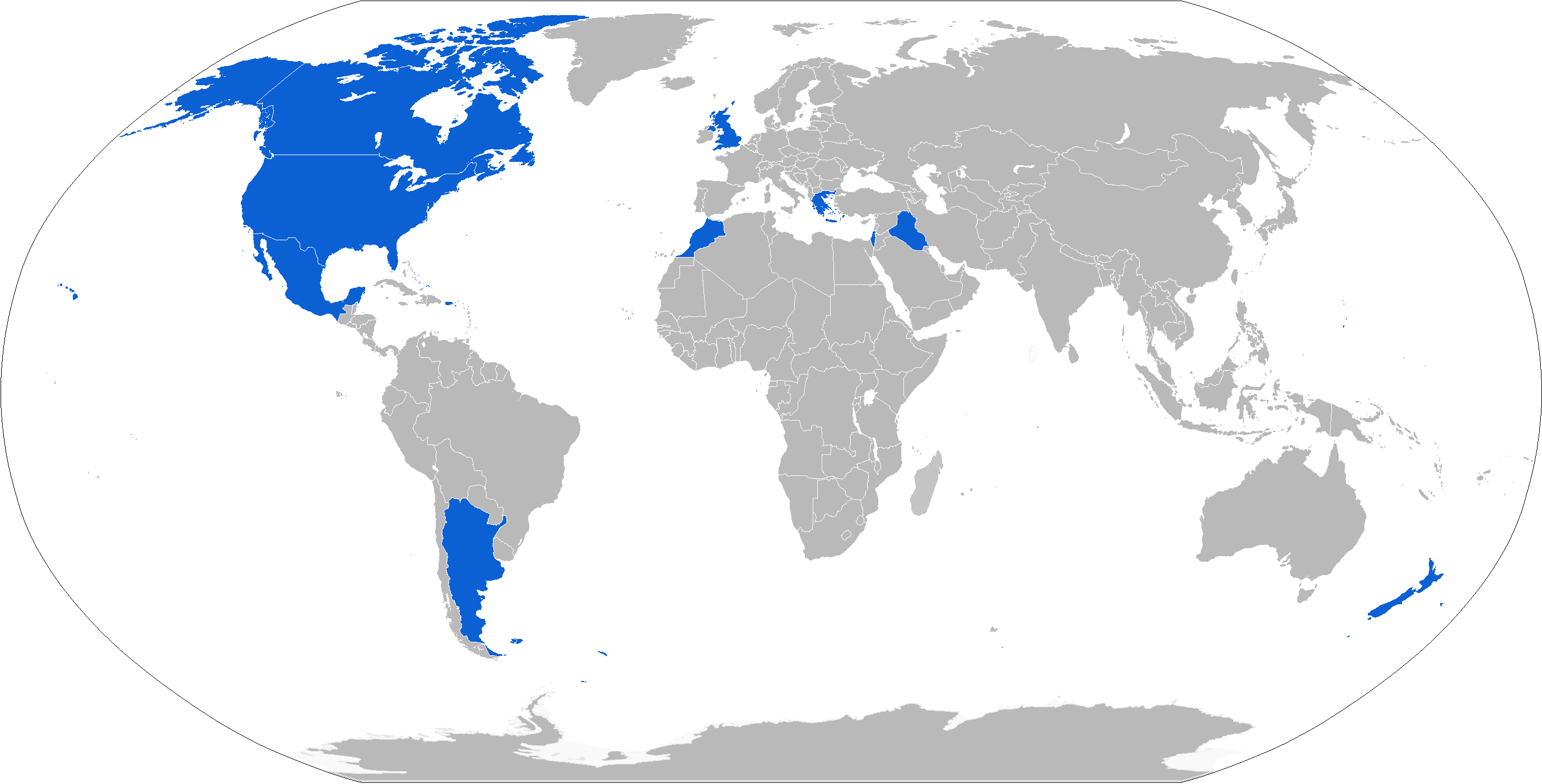 Map with T-6 Texan II operators in blue